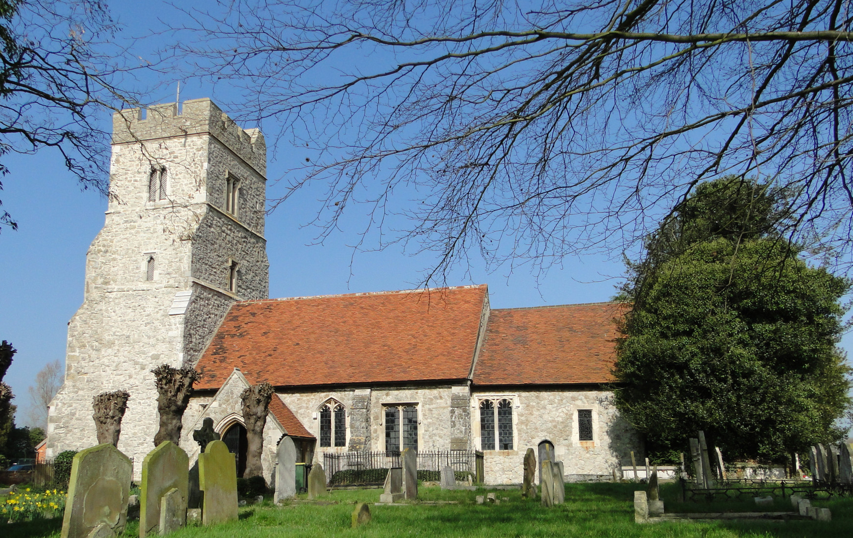 St Peter's parish church, Paglesham, Essex, seen from the south